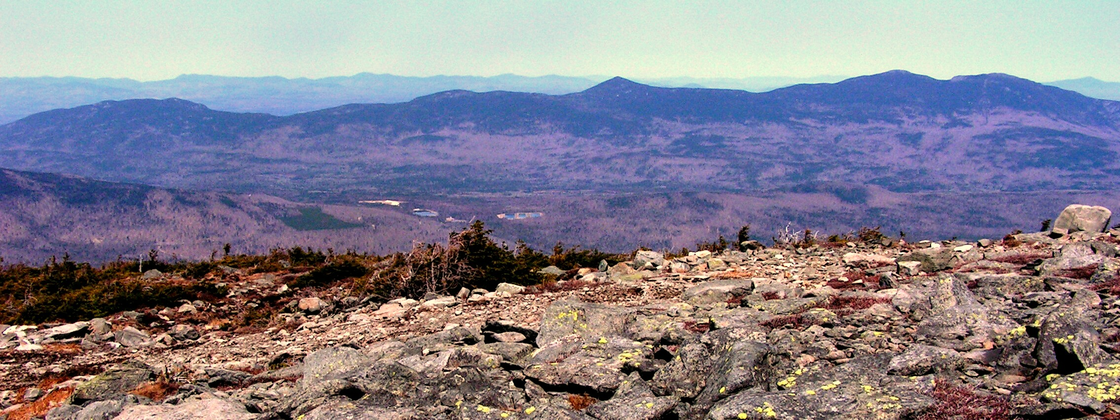 Bigelow Mountain viewed from the top of Sugarloaf Mountain in Carrabassett Valley, Maine.